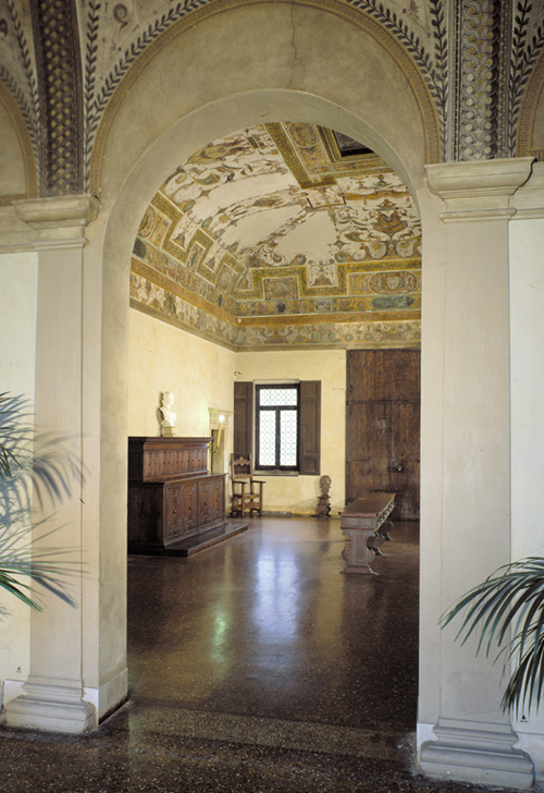 Palazzina Marfisa d'Este